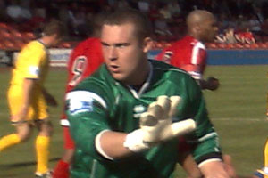 Picture taken by myself of Tim Deasy during the Conference North fixture between Tamworth & Barrow on September 15 en:2007.